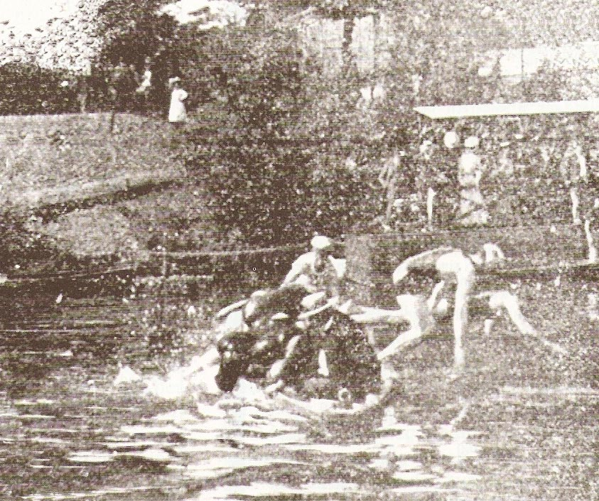 Obstacle swimming at the 1900 Olympic Games photography, adapted reproduction, no restrictions on use